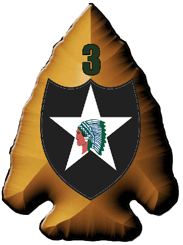 3rd Brigade 2nd Infantry Unit Patch